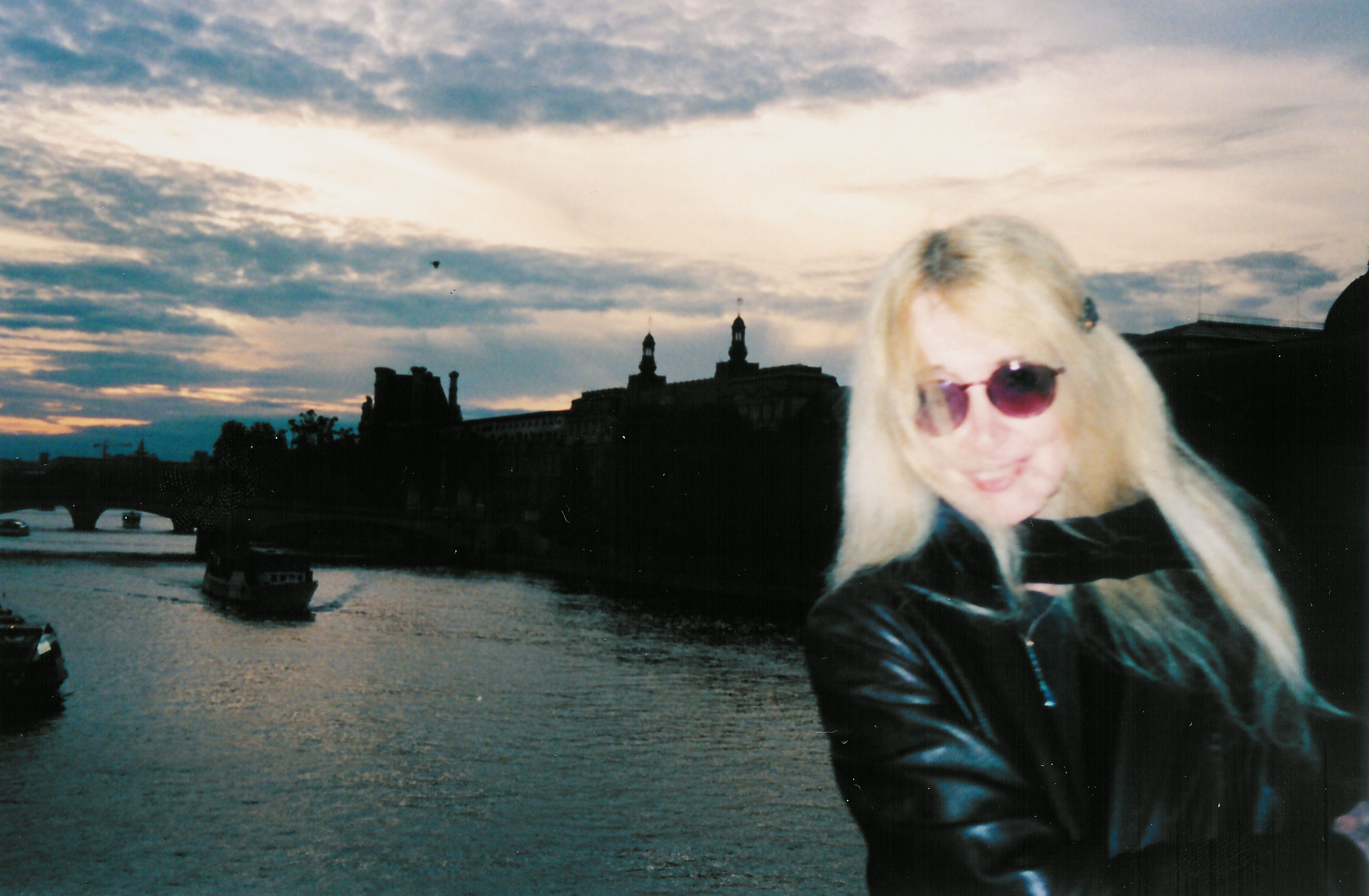 Photo of Lyn Lifshin in Paris.